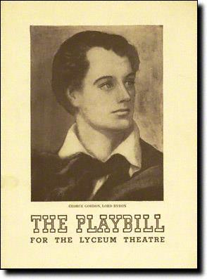 Playbill for the Broadway Drama "Bright Rebel", featuring an image of Lord Byron on the front.